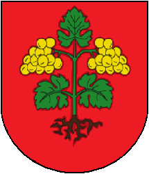 Shield of the District of Raron, Canton of Valais - Blazono de la Distrikto Rarono, Kantono Valezo